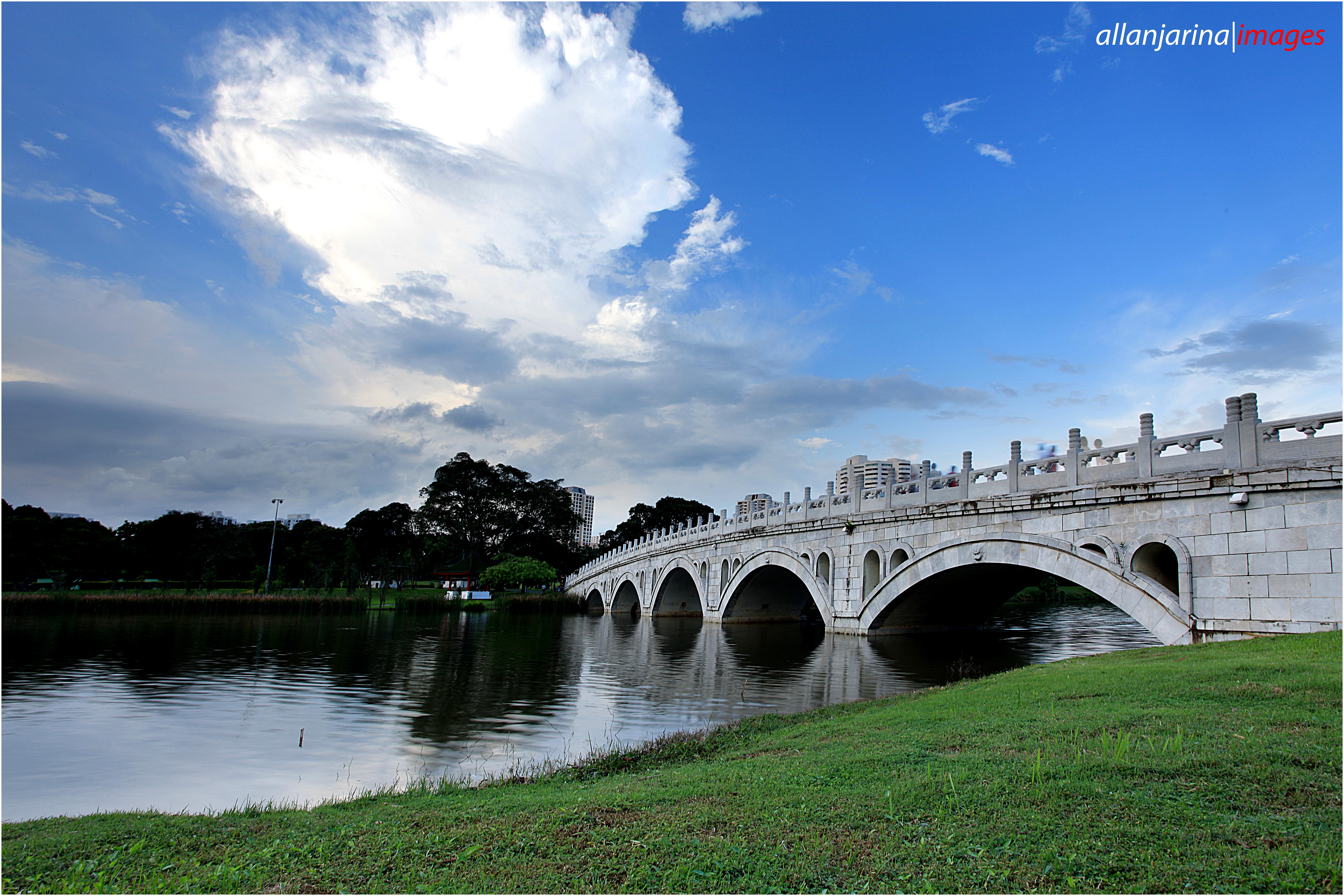 In the art of Chinese gardens, bridges play an important role; they are one of the most important structures and may denote the characteristics of various periods of civilizations.